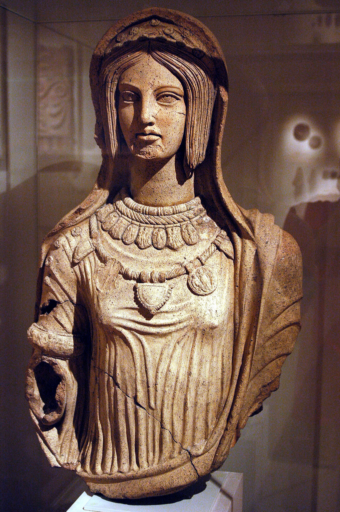 Terracotta statue of a young woman, late 4th–early 3rd century B.C., Etruscan Terracotta; H. 29 7/16 in. (74.8 cm); The Metropolitan Museum of Art, New York, Rogers Fund, 1916 (16.141)